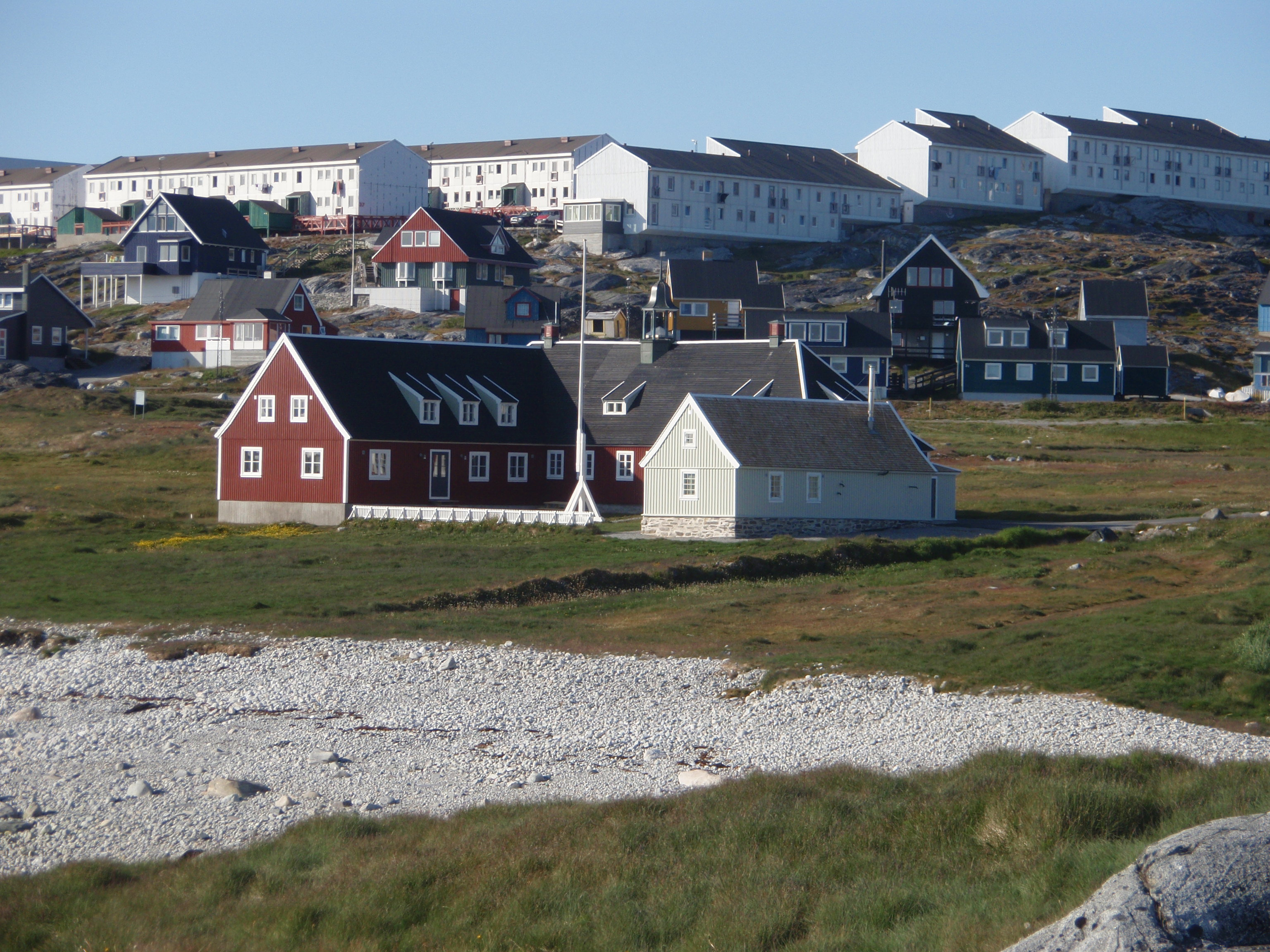 The old university in Nuuk, Greenland